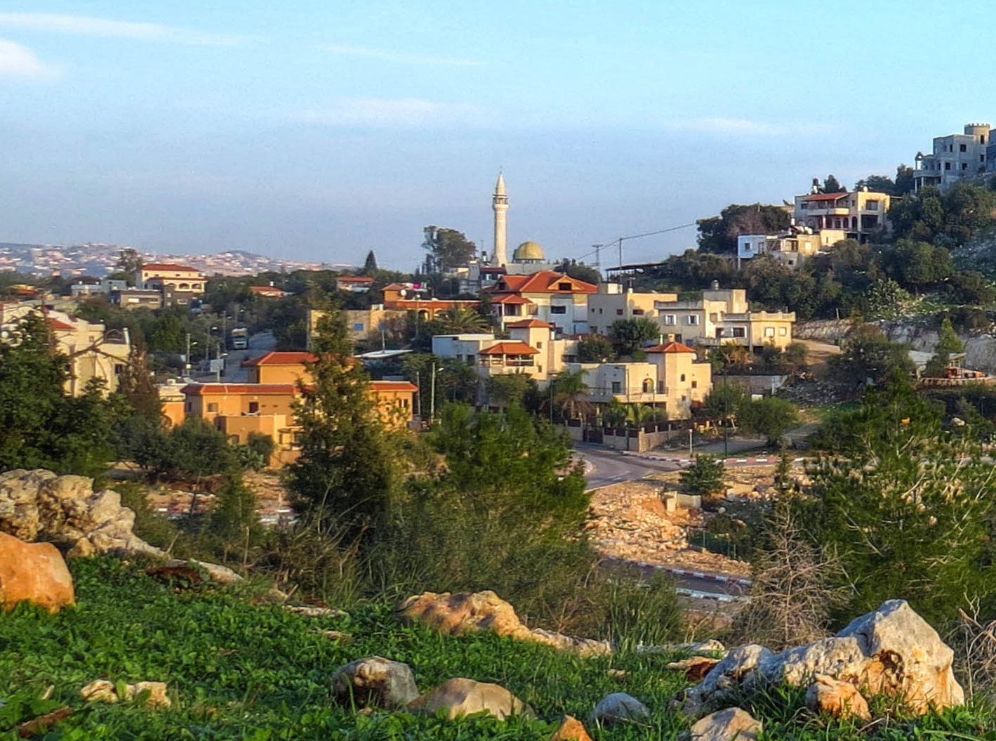 Umm al-Qutuf